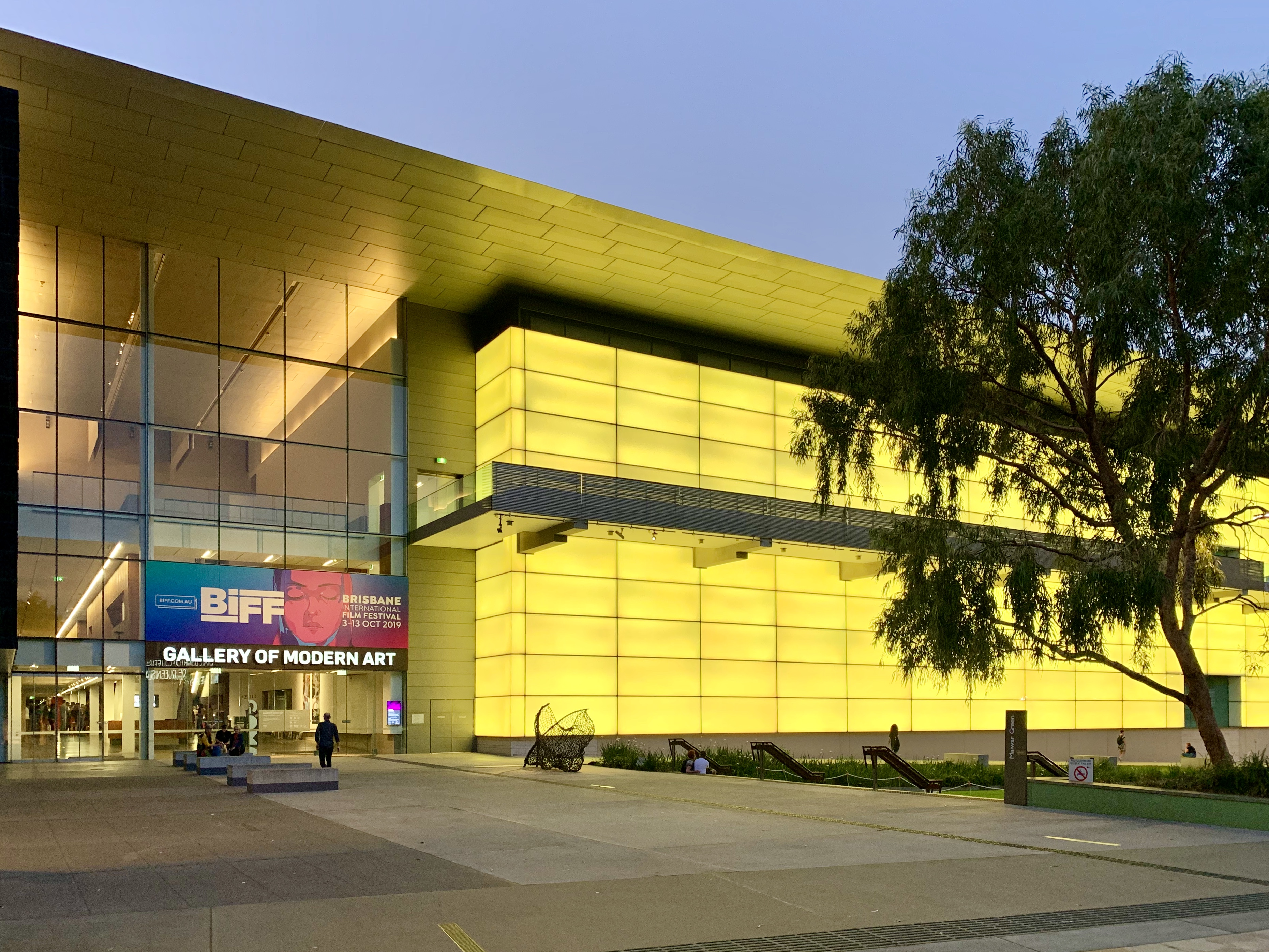 Queensland Gallery of Modern Art at dusk, Brisbane, 2019